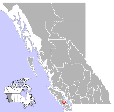 Location of Port Alberni, British Columbia